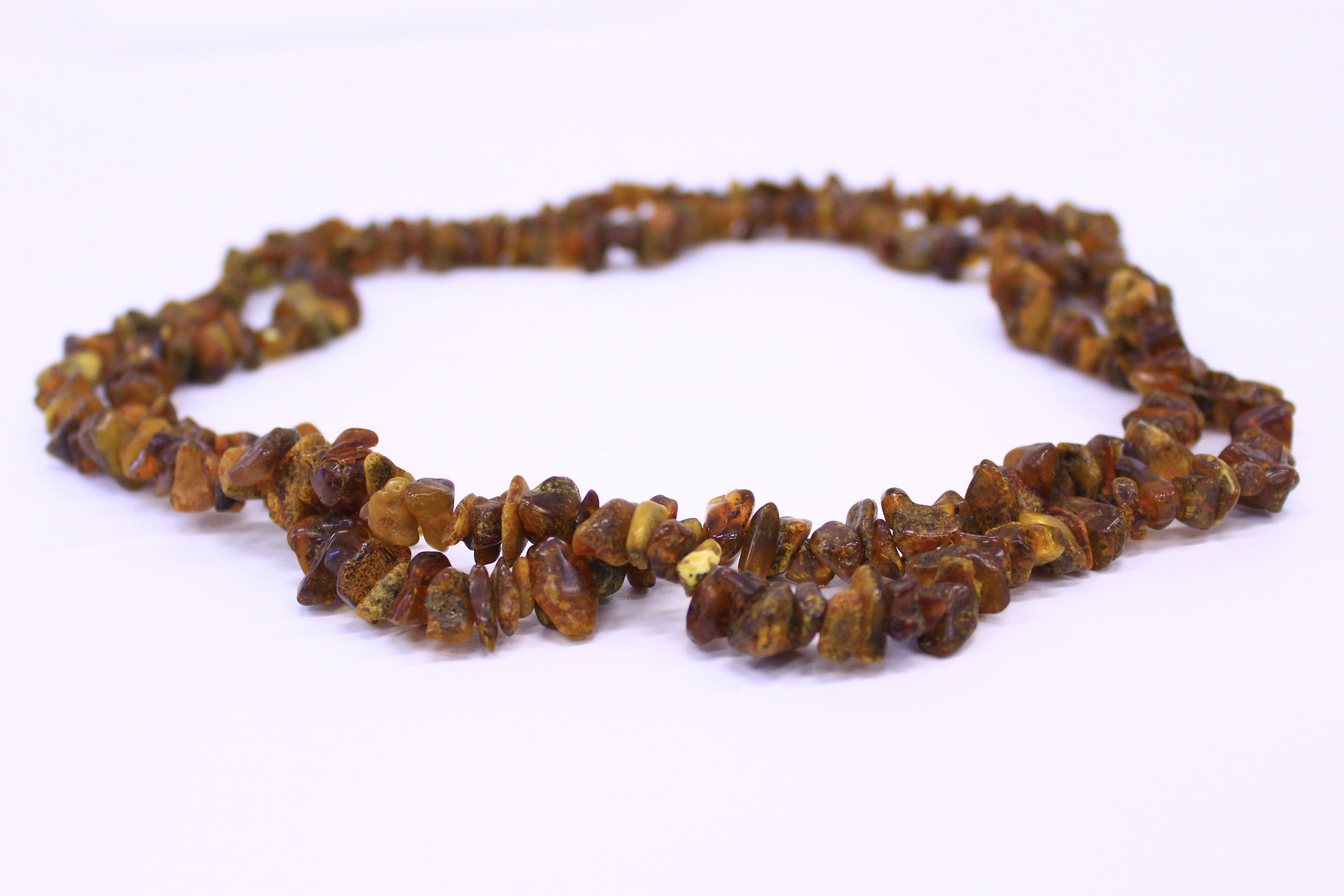 Amber imitation, amber, nylon wire. Lithuania, 1959. Donor Jenny Marcinkievicius Bumbles. Immigration Museum Collection. Amber is very popular and important among the lithuanians and their descendents. It can have several colours and it is very common in Lithuanian handicraft and jewelry. It is also used in the costumes, and tradicionally can be used for medicial purposes as well. This resin is also known as "Lithuania´s gold" and, for that, it is reconigzed as the country´s national gem.